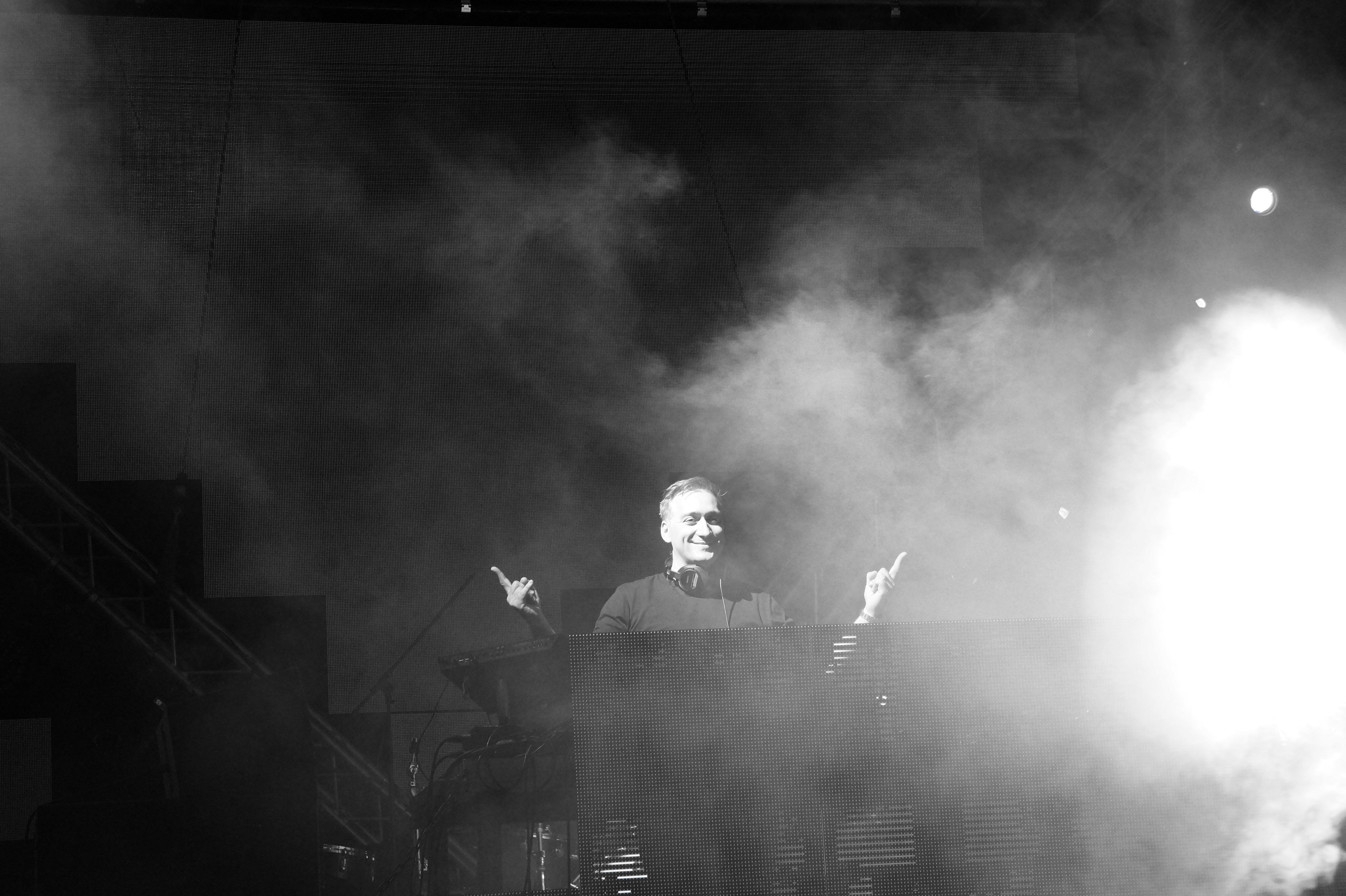 No description is currently available.